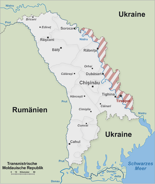 Map of Transnistria german names